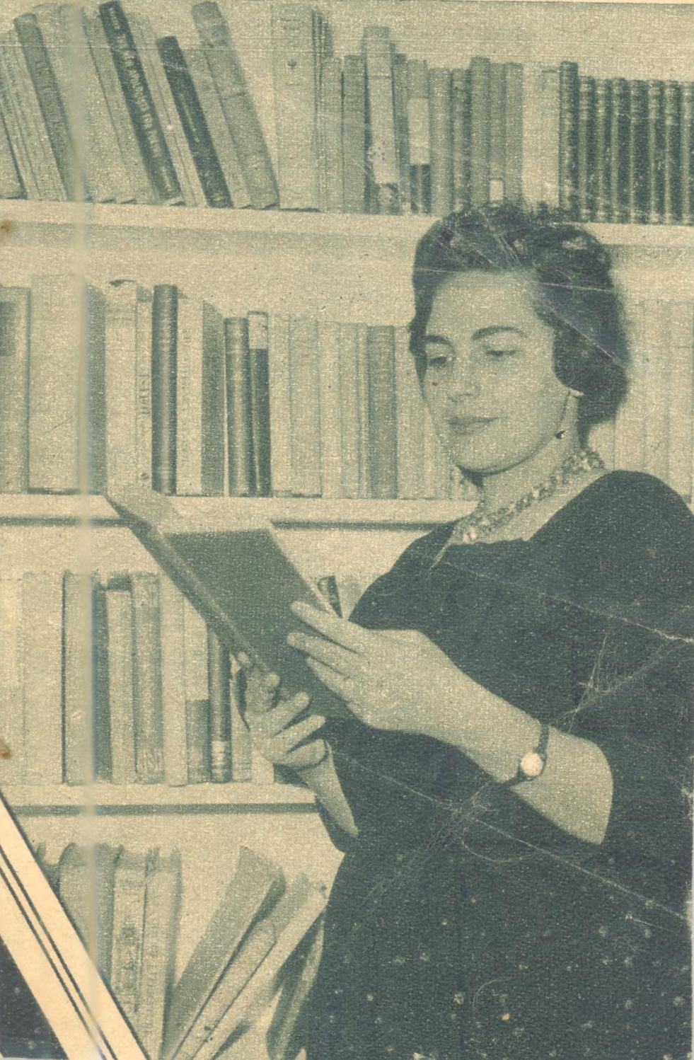 Latifa al-Zayyat: 1923-1996 A writer and a novelist. She was one of the Egyptian women pioneers and one of the most distinguished Arab writers of the twentieth century. She participated in the Workers and Students upheaval in 1946. Her books include "The Open Door" (1960), and "The Search: personal papers" (1992). She portrayed the significant role played by women in advocating women's rights, through her novel "The Open Door".